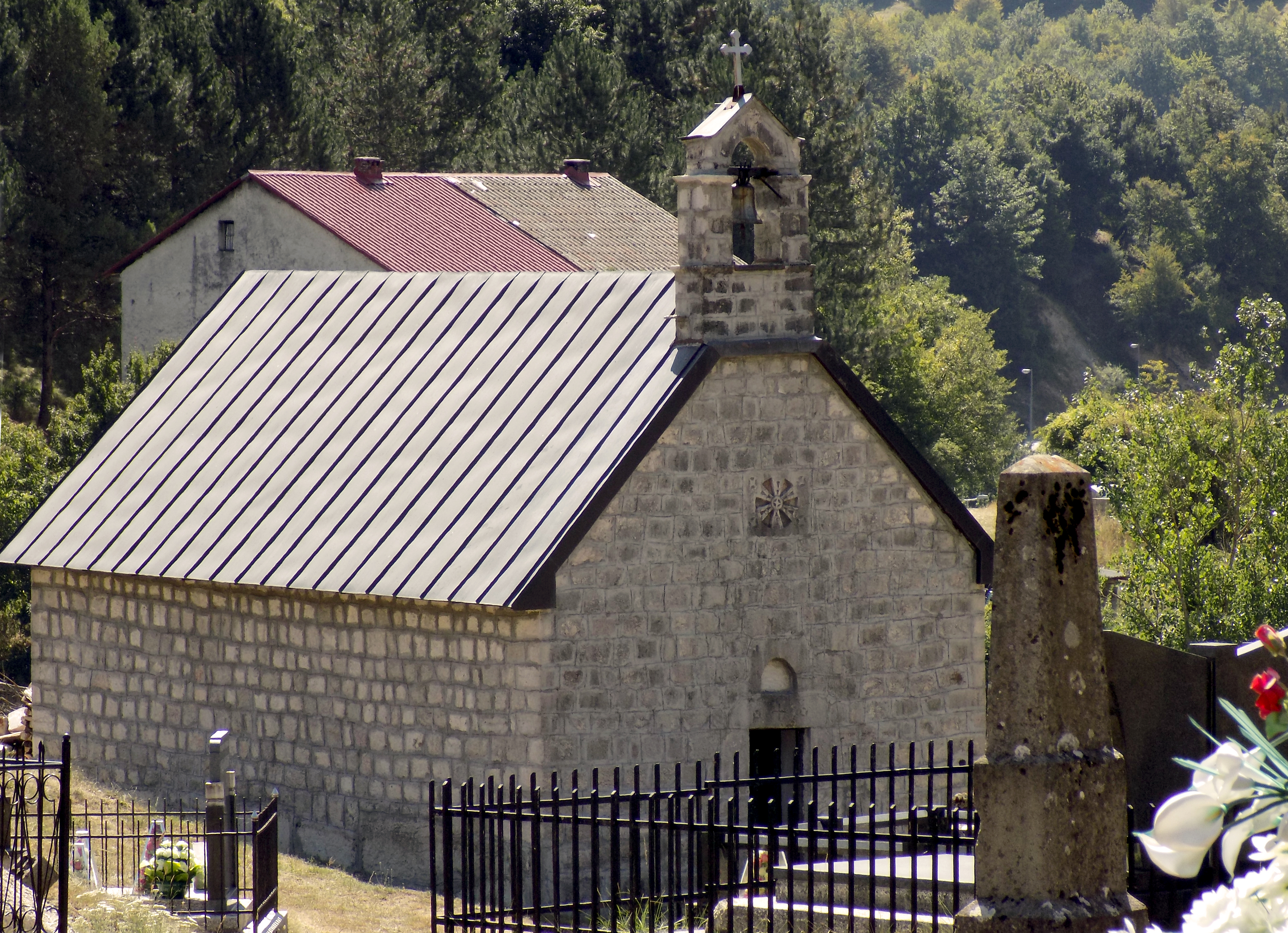 Old church in Šavnik, Montenegro